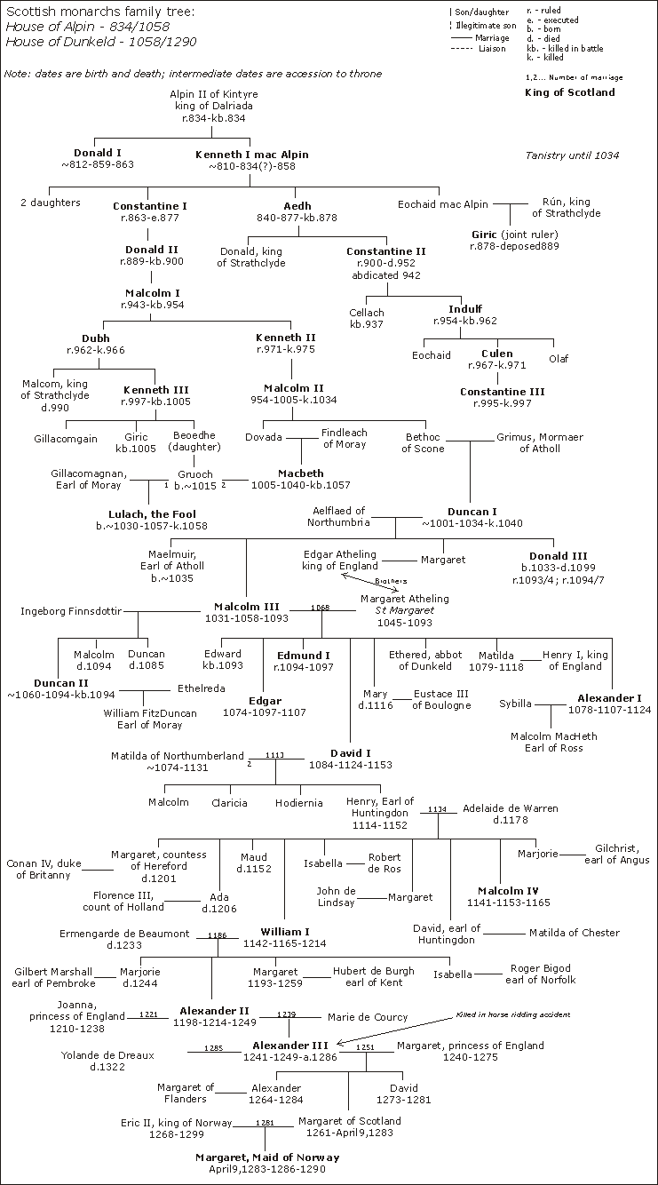 Family tree for the kings of Scotland: House of Alpin and House of Dunkeld (834-1290)